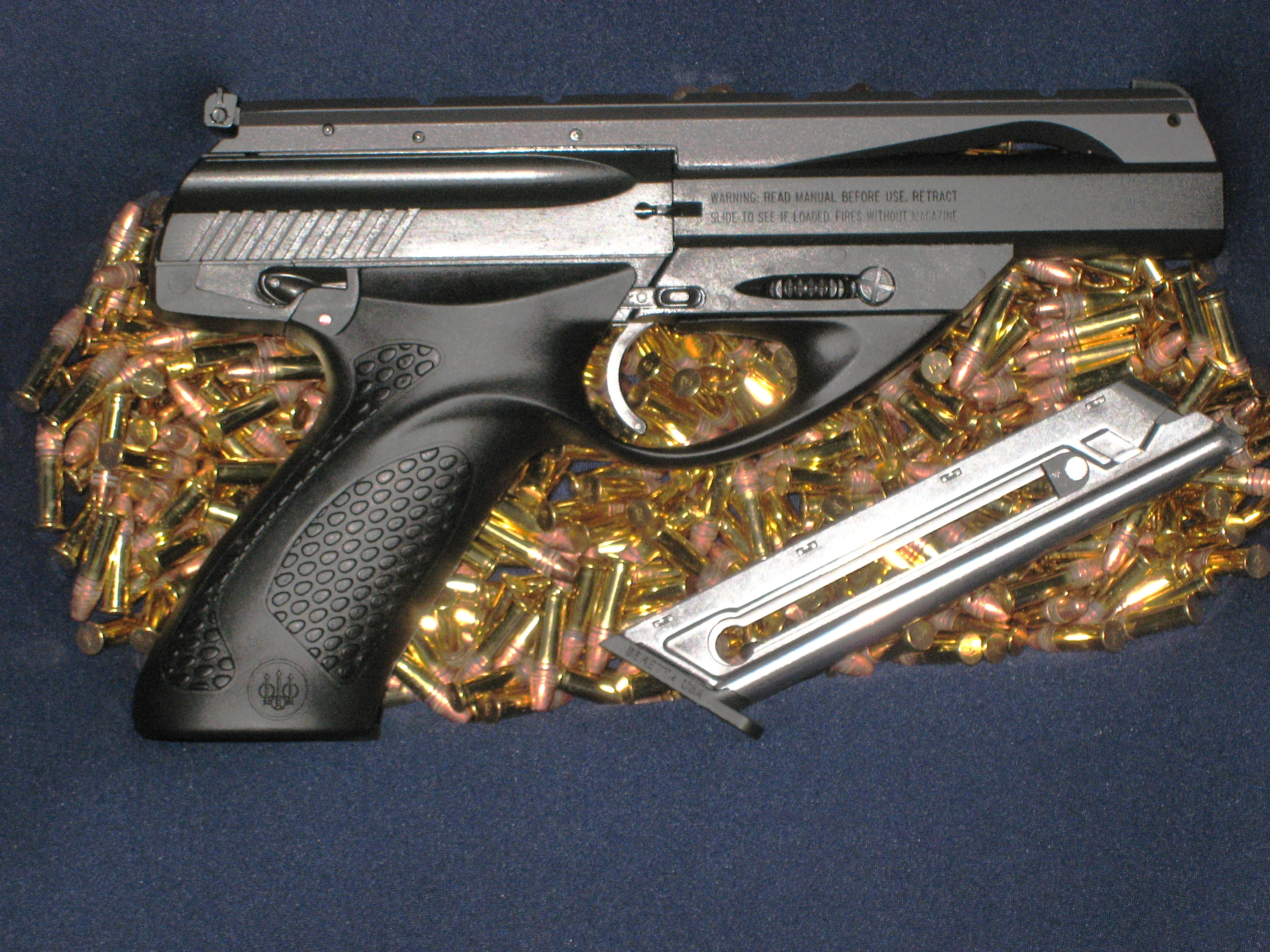 Beretta U22 Neos basic model; blued steel with 4.5" barrel.